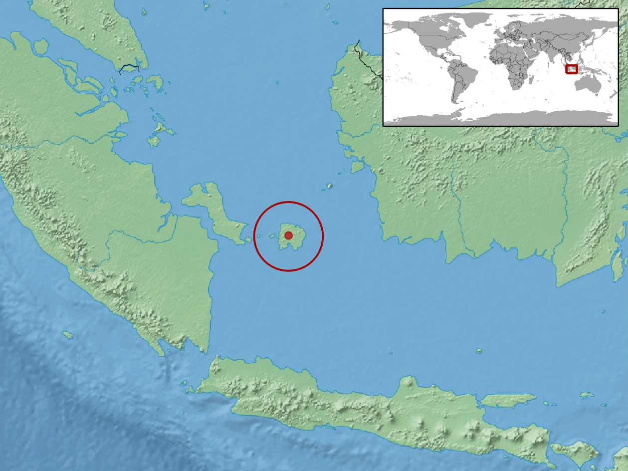 geographic distribution of Calamaria javanica (Native: Indonesia (Sumatera))